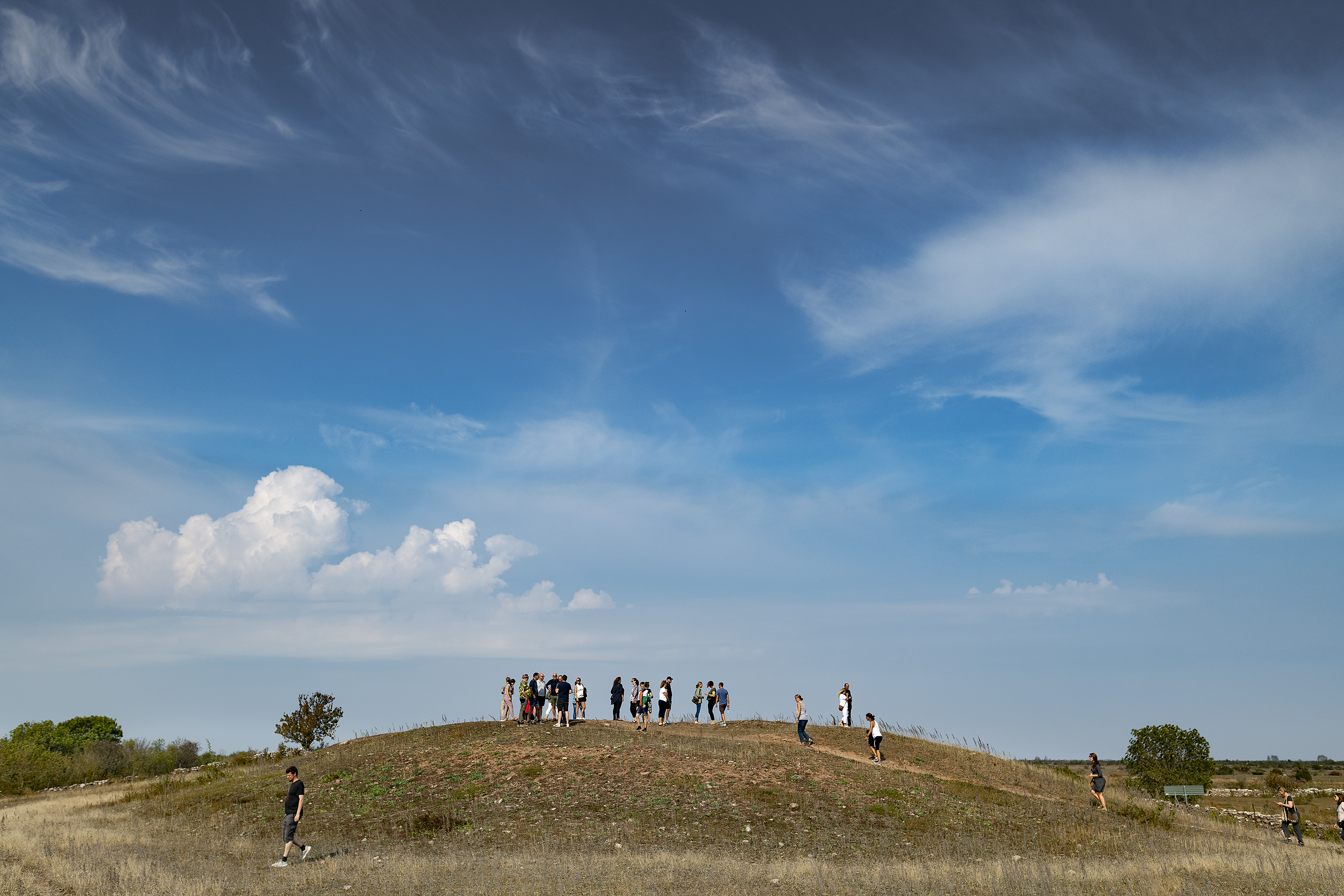 Bronze Age mound